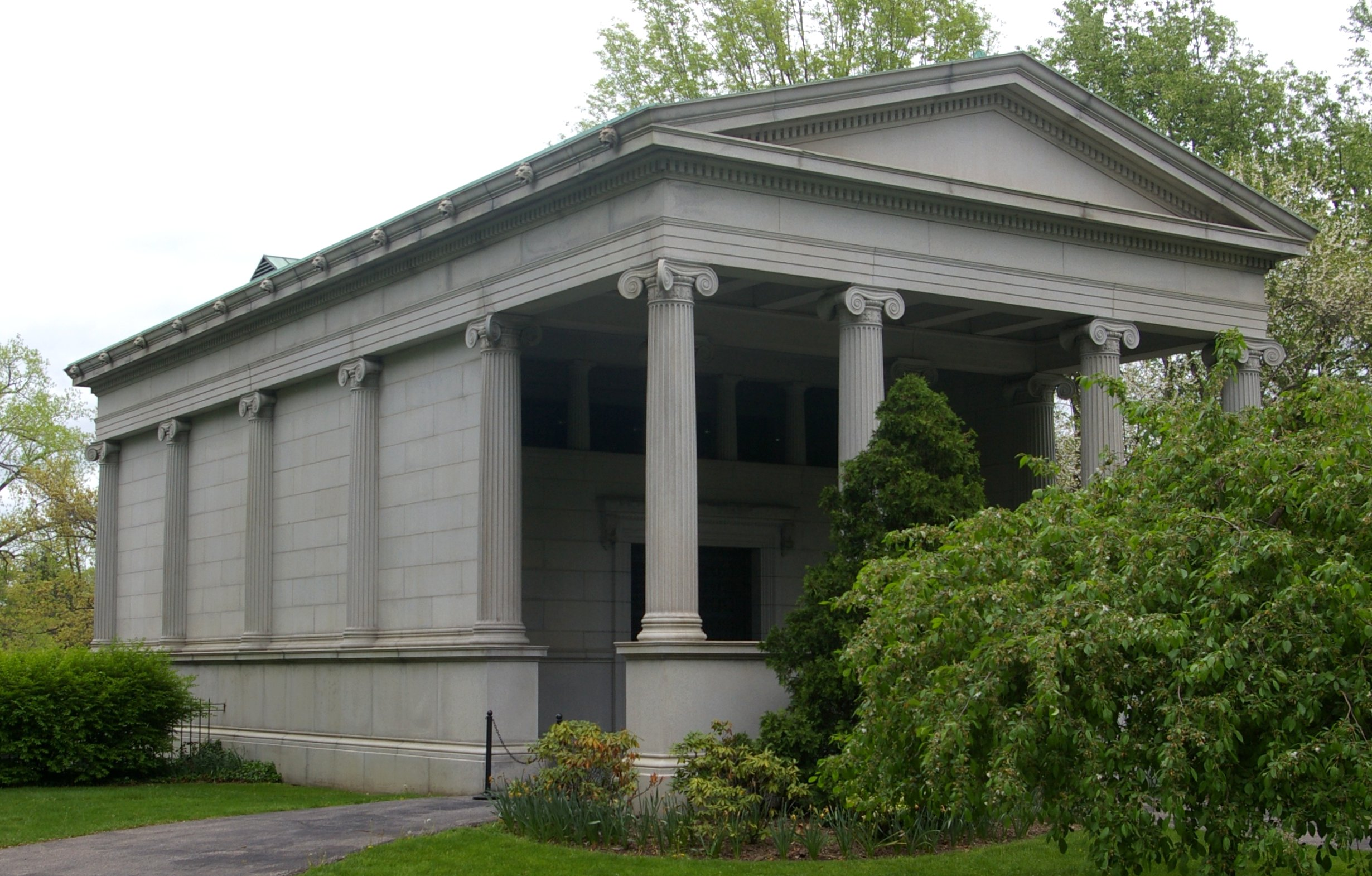 A view of the Wade Memorial Chapel in Lake View Cemetery, in Cleveland, Ohio. The structure, built in 1901, is listed on the National Register of Historic Places.